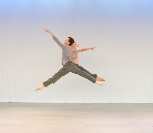 Jonathan Stiles in Heather Malloy's Le Suil Go performed at the NCSA Summer Performance Festival, Dance at Eight!, Outdoor Pavilion Series, Roanoke Island Festival Park, Manteo, NC.